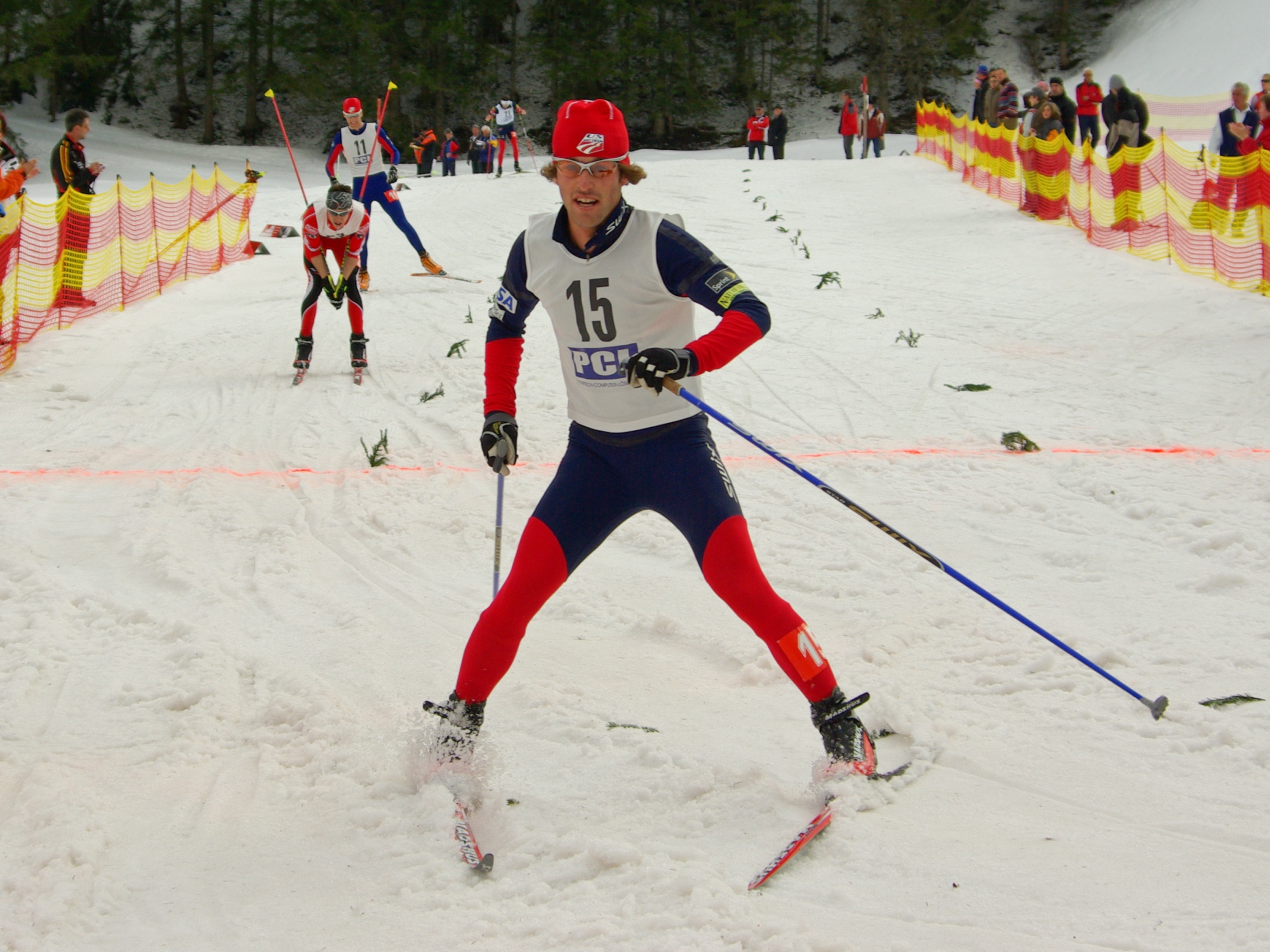 American nordic combined skier Eric Camerota during the World Cup B sprint event in Eisenerz (Austria) on 9 March 2008.